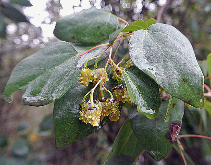 The fruit of Cupulicillo trees at Papallacta Hotsprings, Ecuador. In context at